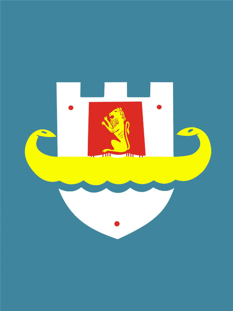 Durrës Seal